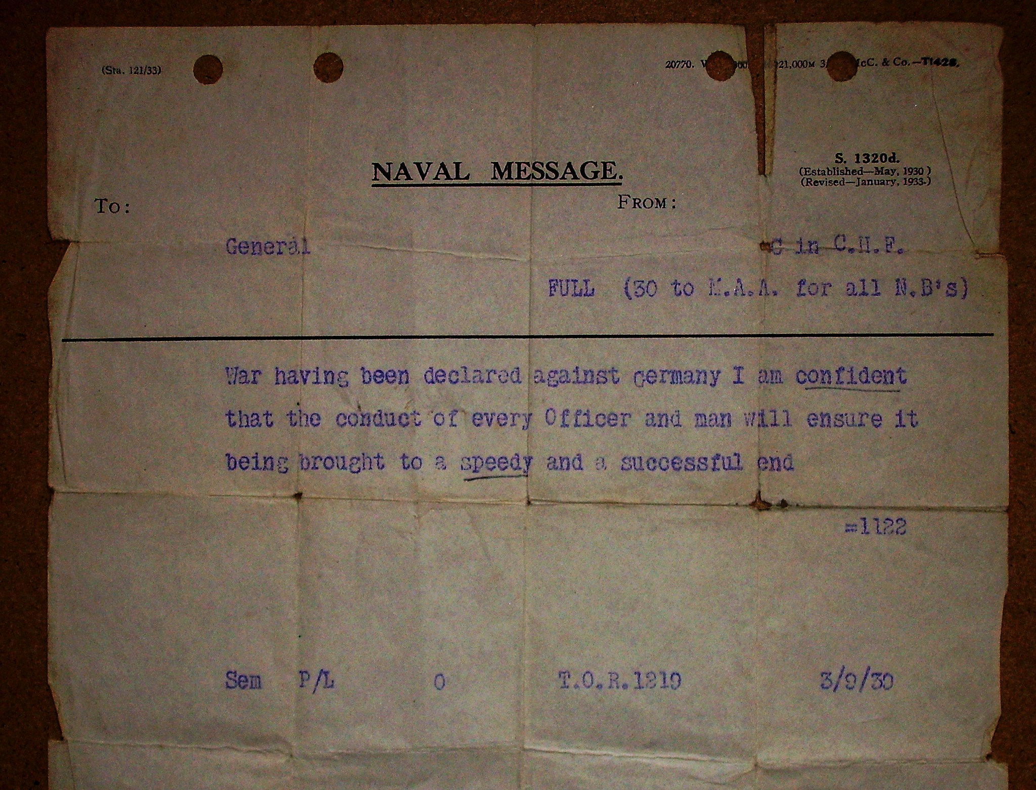 This is the naval message sent by the C in C H.F. (Commander in Chief Home Fleet) upon Britain's entrance into the Second World War. This particular copy is the one received by the aircraft carrier HMS Ark Royal. The time of receipt (1219) and date (3/9/39) are visible at the bottom of the message.